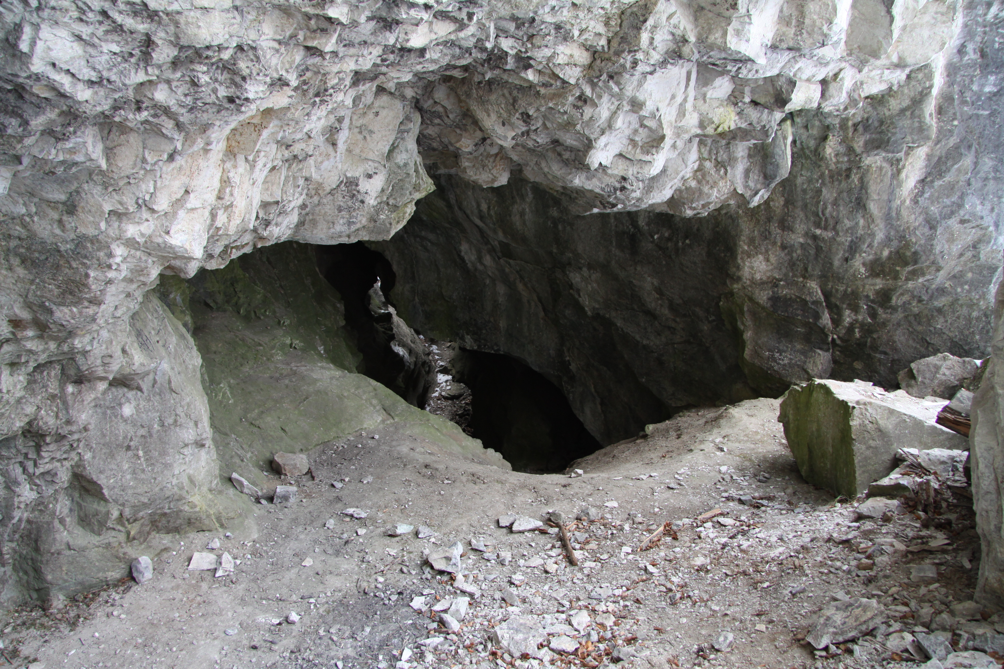 Sudslavická cave in natural reserve Opolenec in Prachatice District, Czech Republic